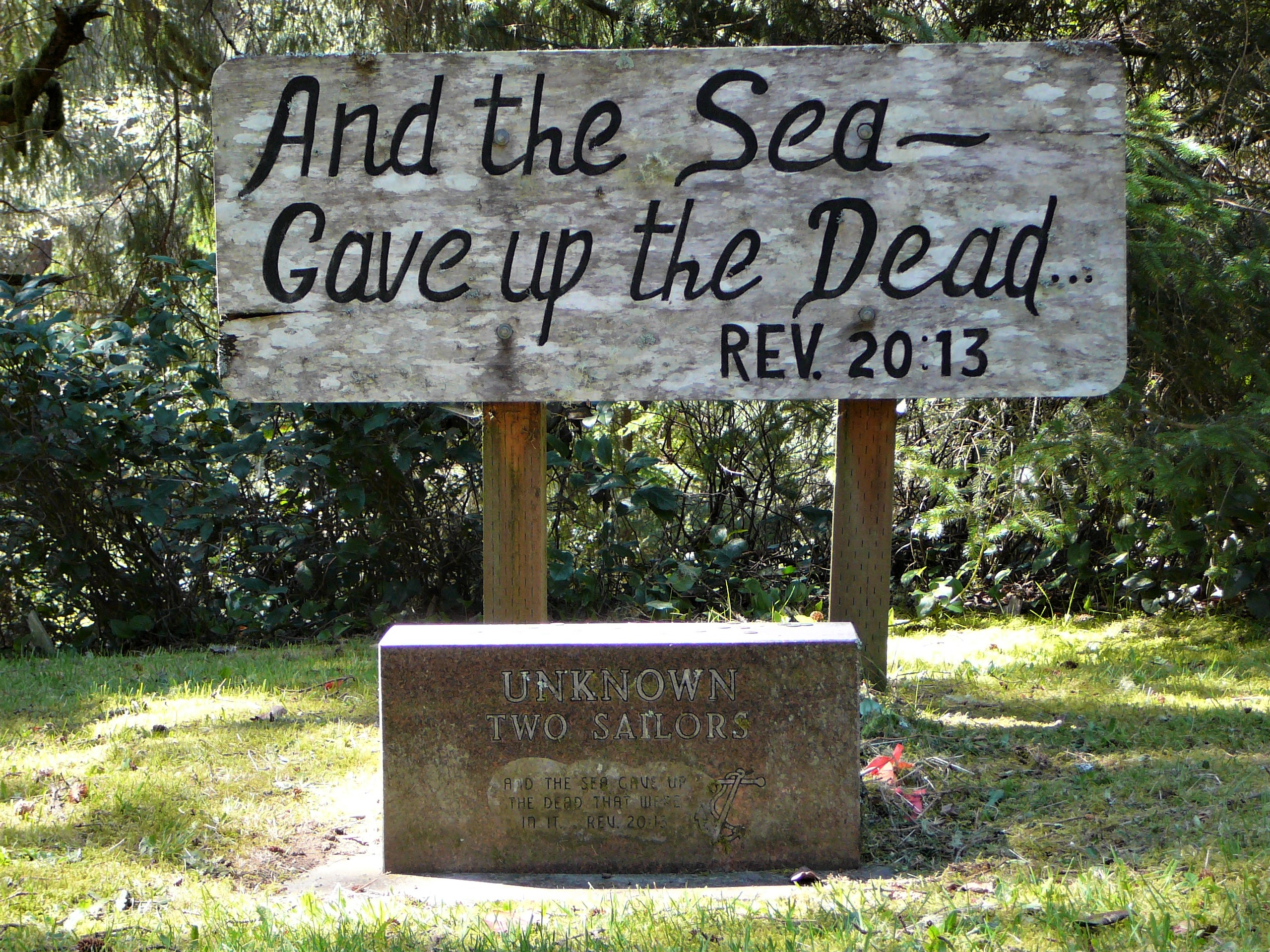 Bodies of two unknown sailors that washed ashore are interred here in the Oysterville Cemetery.